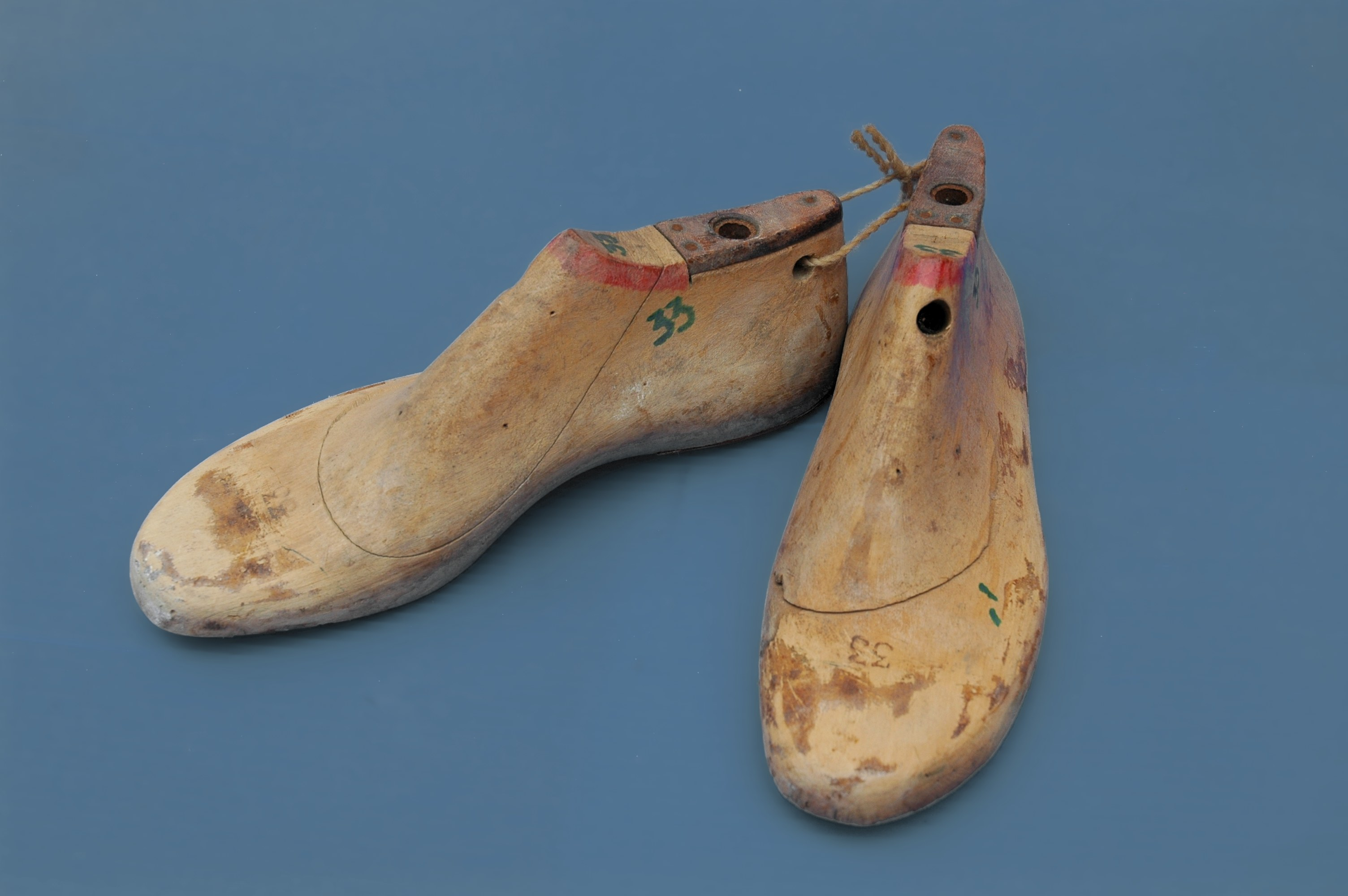 Dummies used by the shoemaker to make shoes for the kibbutz members